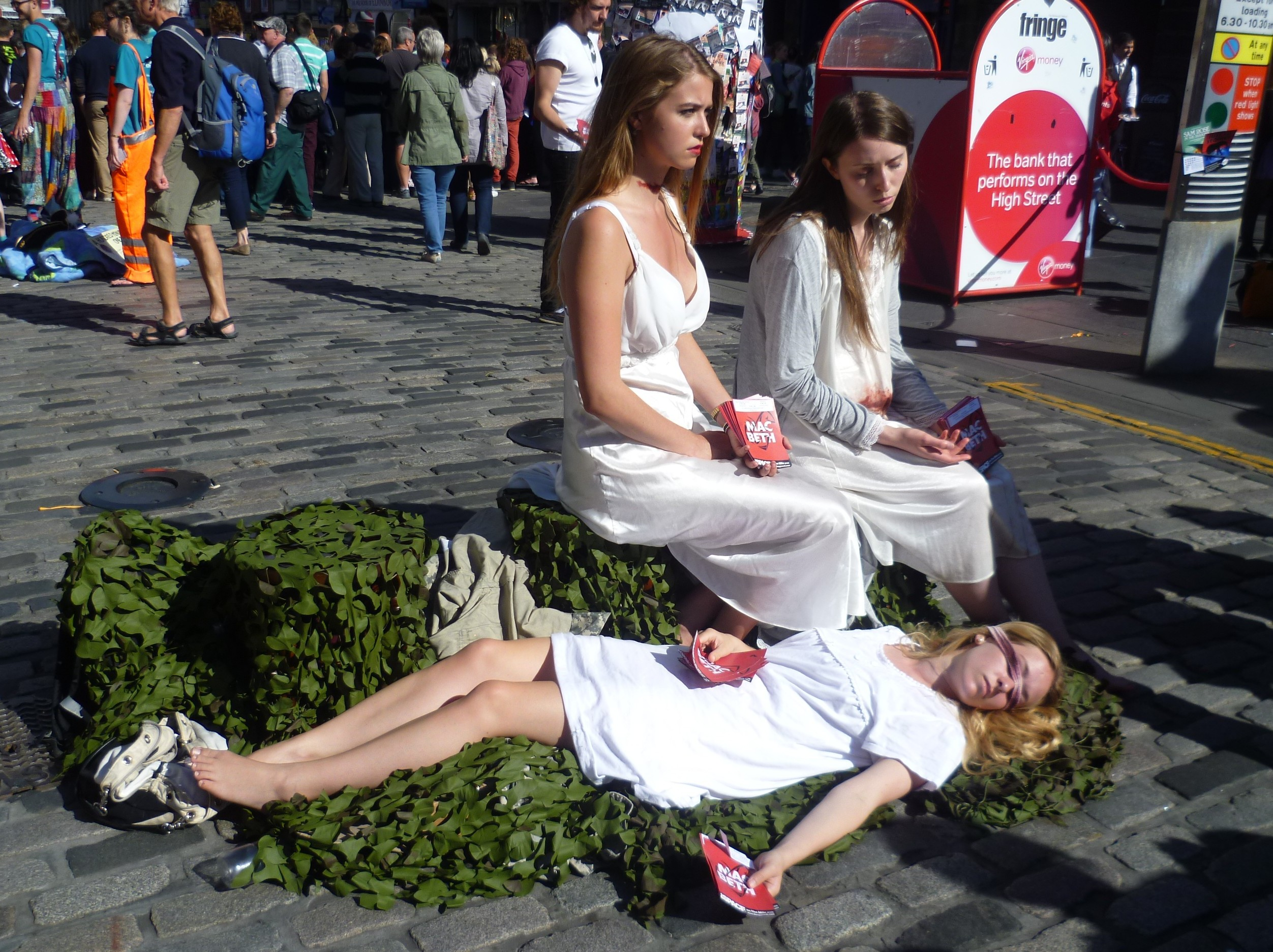 Members of Thrust Stage publicising a Fringe production of Shakespeare's Macbeth in the High Street